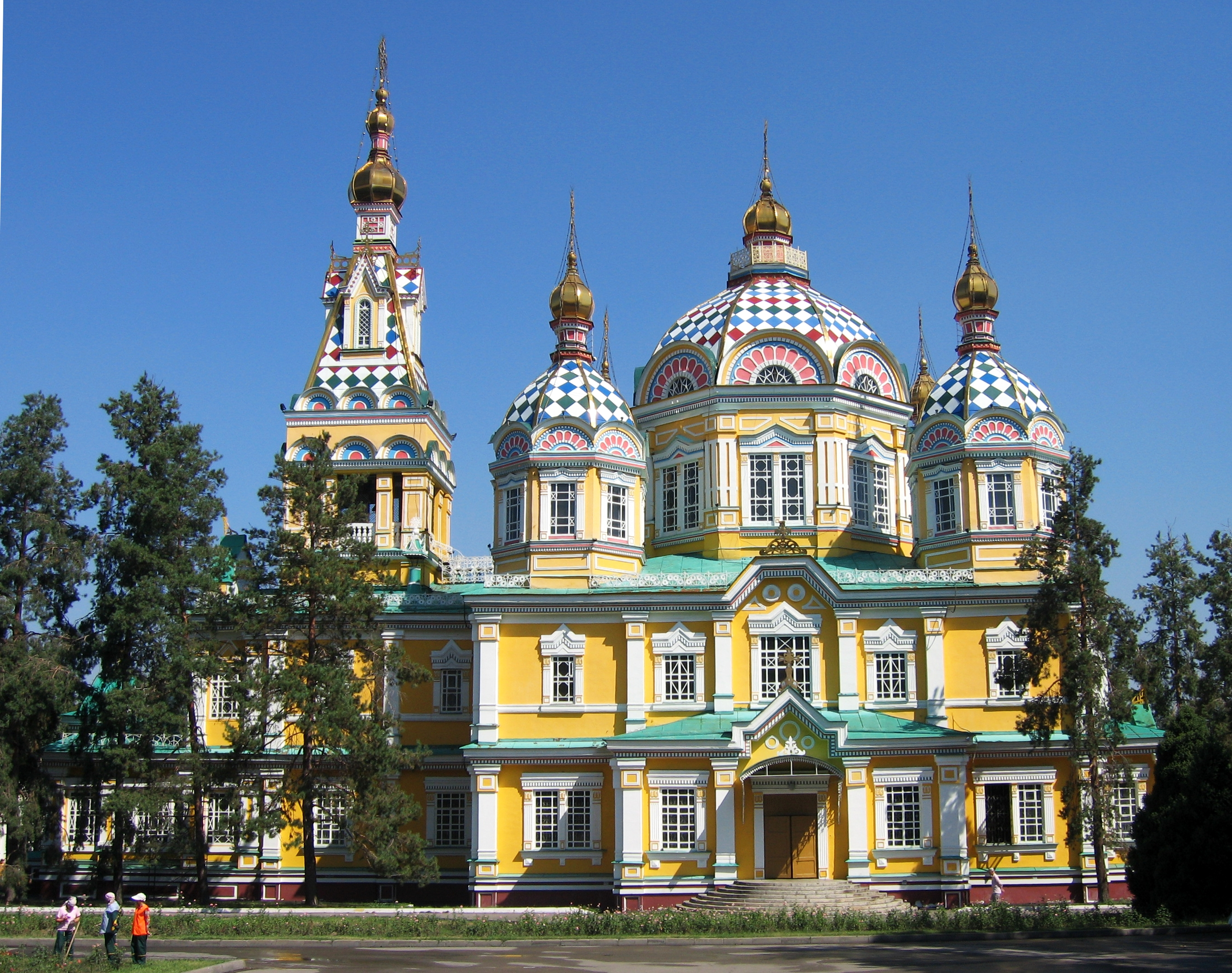 Ascension Cathedral, Almaty, Kazakhstan. View from South